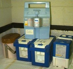 Five technetium-99m generators in the Nuclear Medicine Lab which used to be located on Level 10 of Building 14 of the City campus of the Royal Melbourne Institute of Technology (RMIT) in Melbourne, Victoria, Australia.